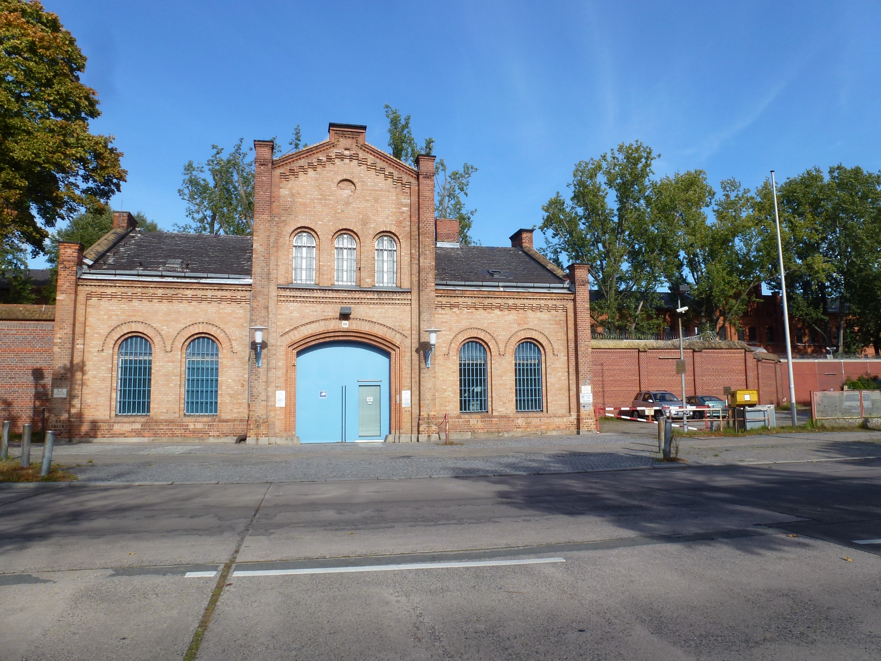 Berlin-Charlottenburg-Nord Friedrich-Olbricht-Damm 16